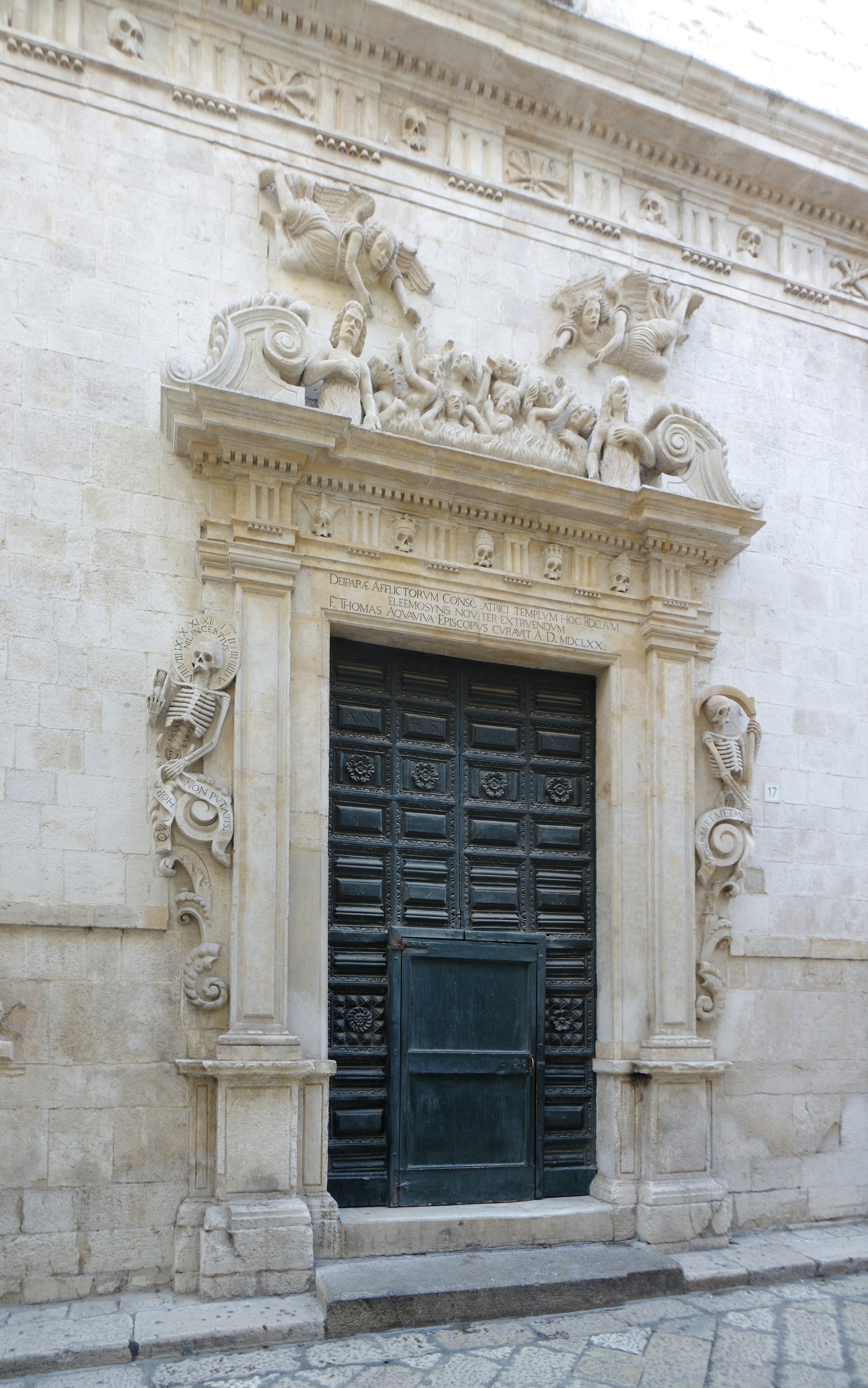 Italy, Bitonto, Chiesa del Purgatorio